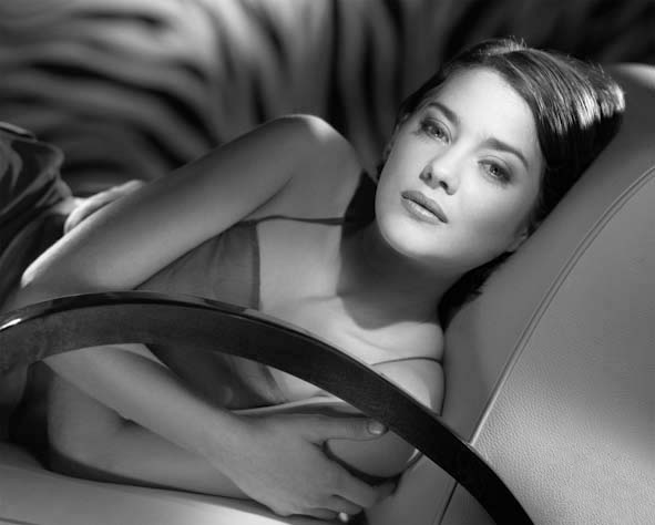 Marion Cotillard photographed by Studio Harcourt Paris